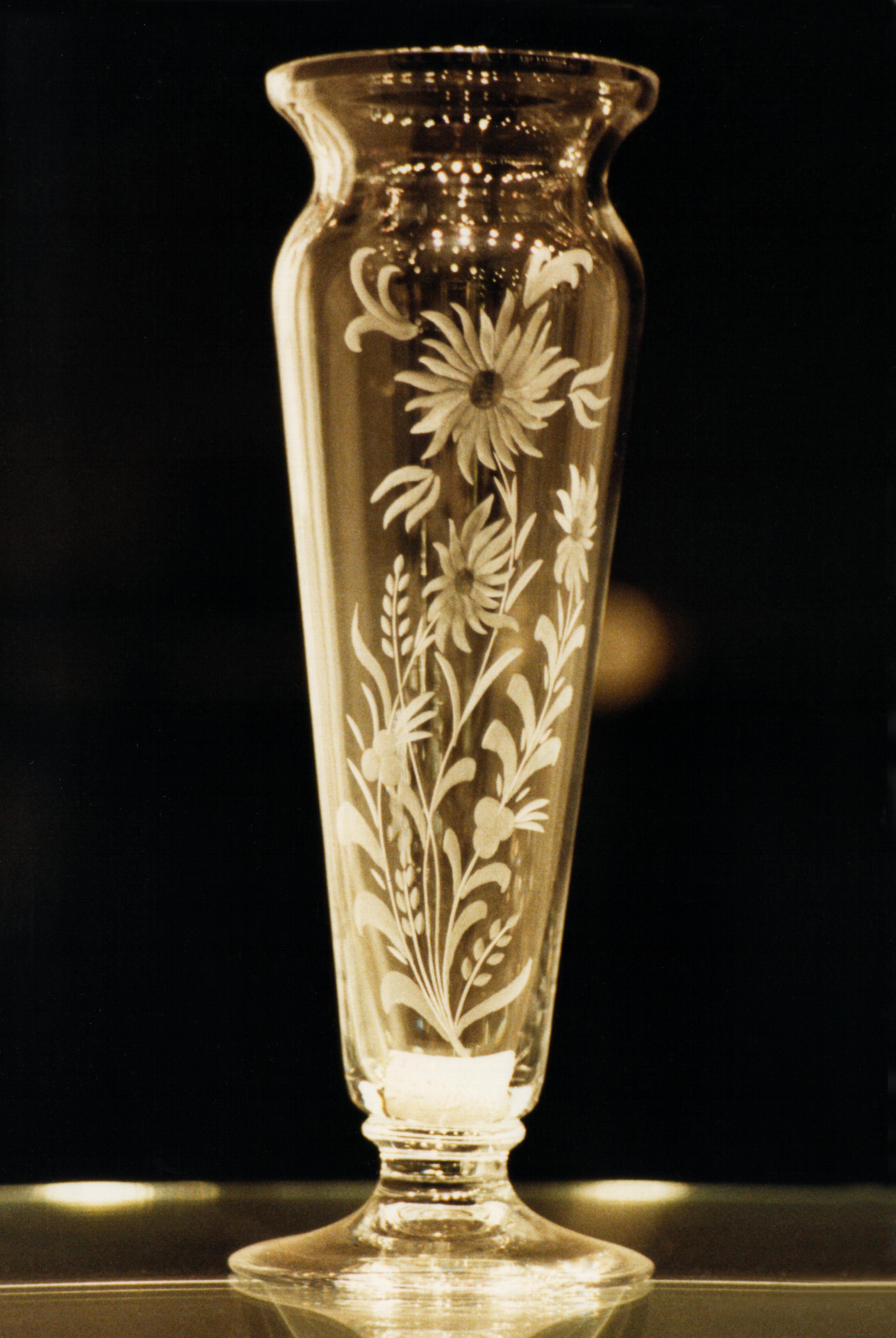 Seraing (Belgium), show-room of the Val-Saint-Lambert crystal manufacture - White crystal vase with an engraved art-nouveau design (begin of the XXth century)..